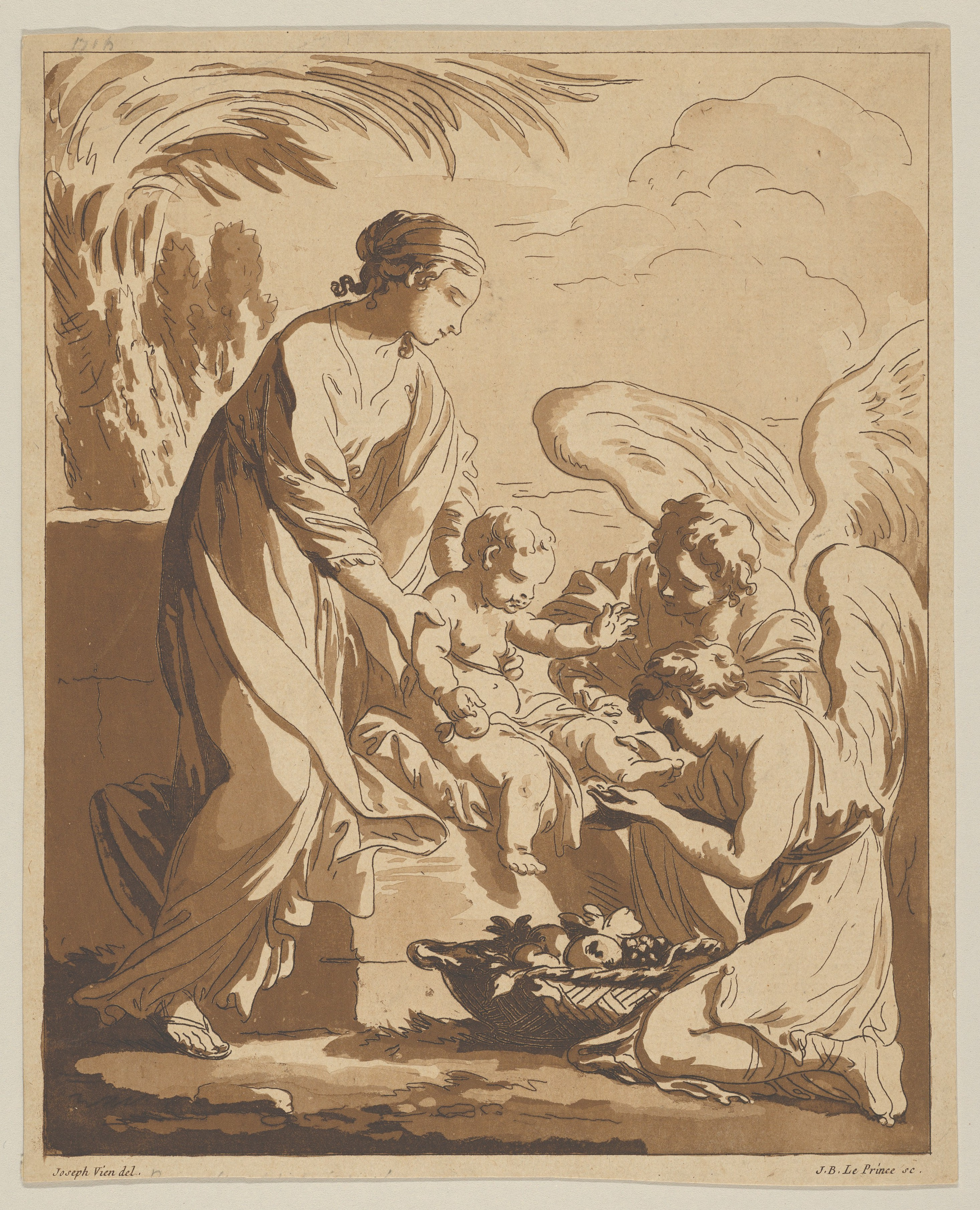 Print; Prints